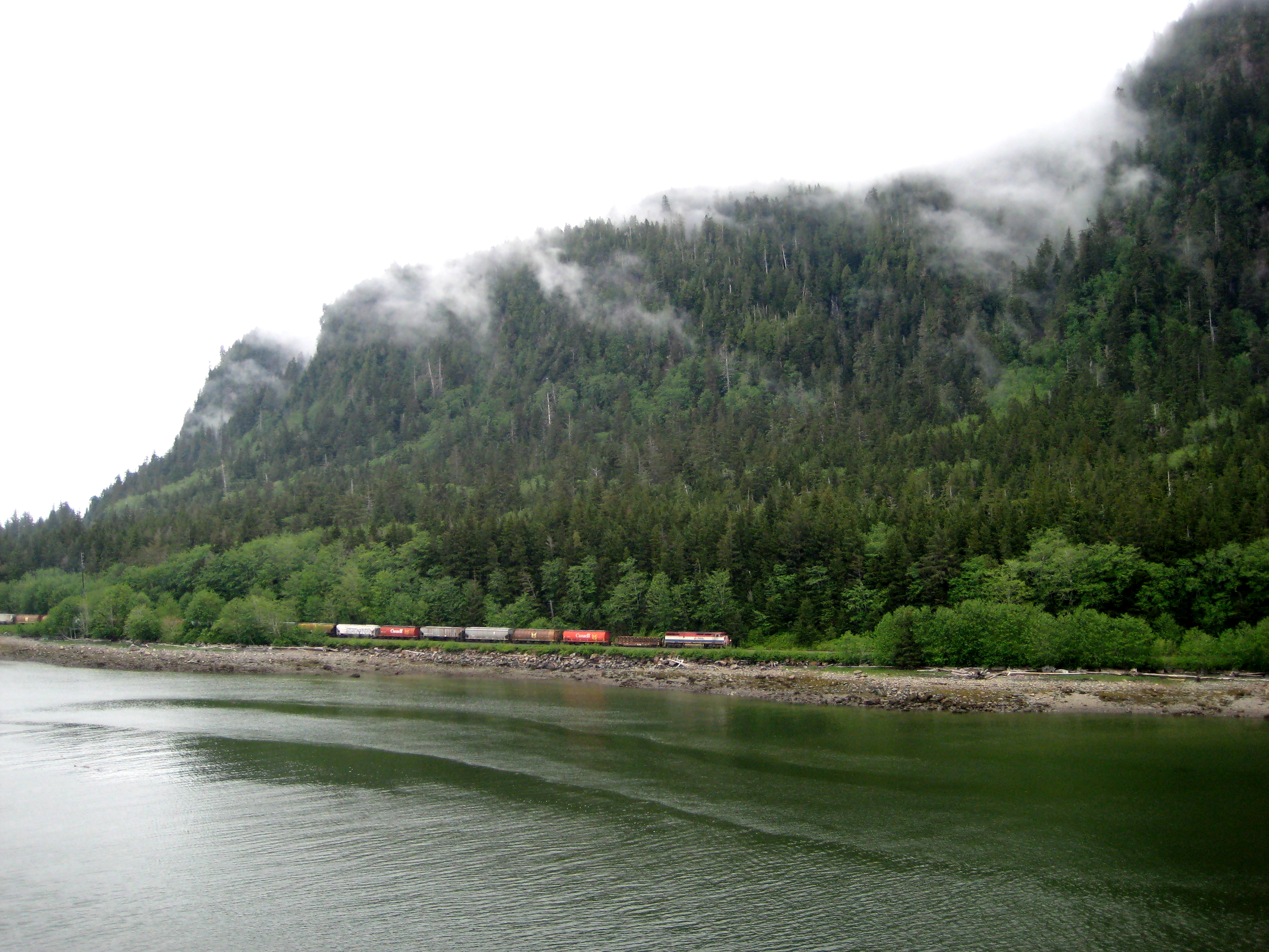 Approaching Prince Rupert